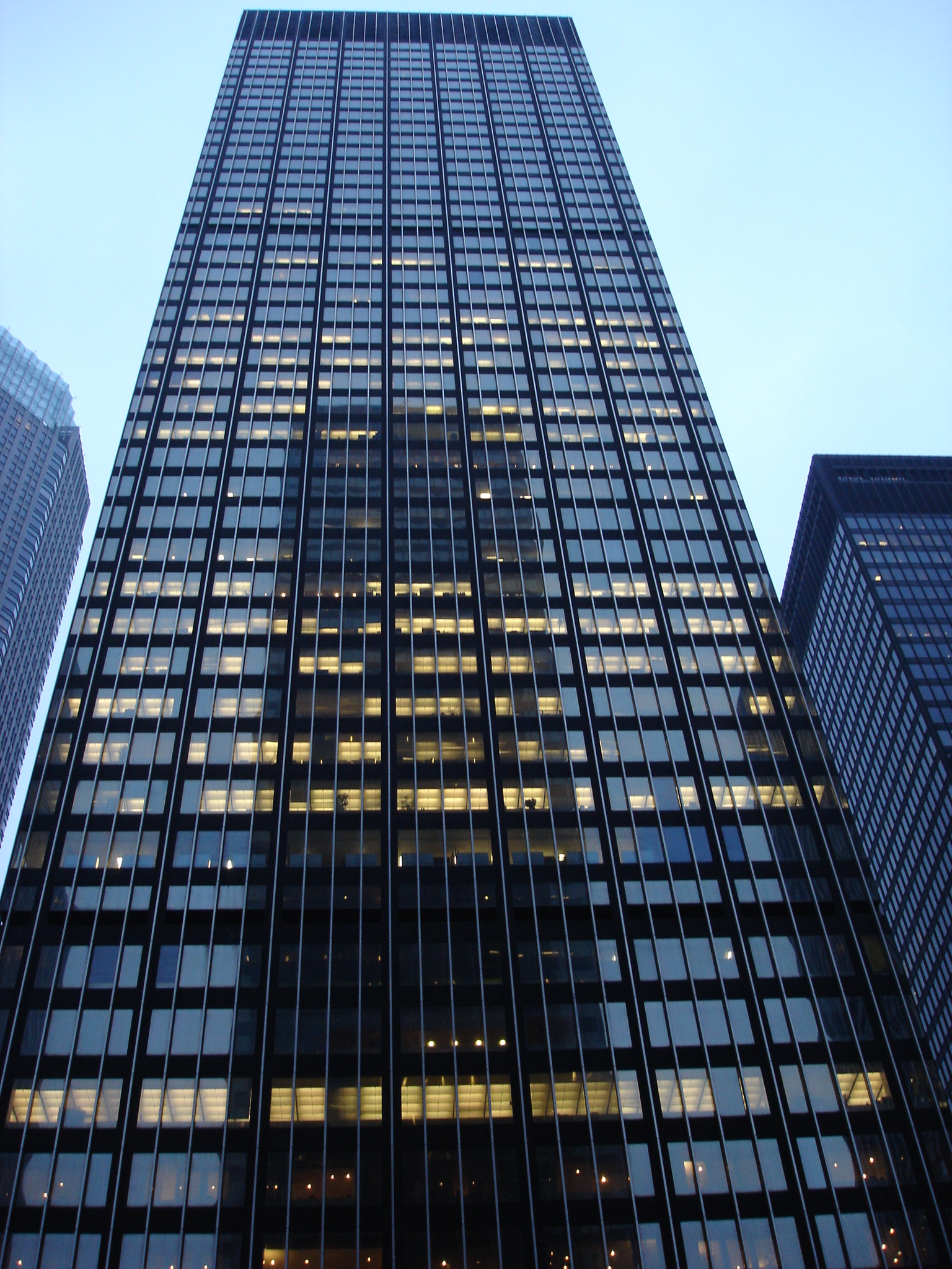 This photo is of Wikipedia Takes Manhattan location code 82, 270 Park Avenue.